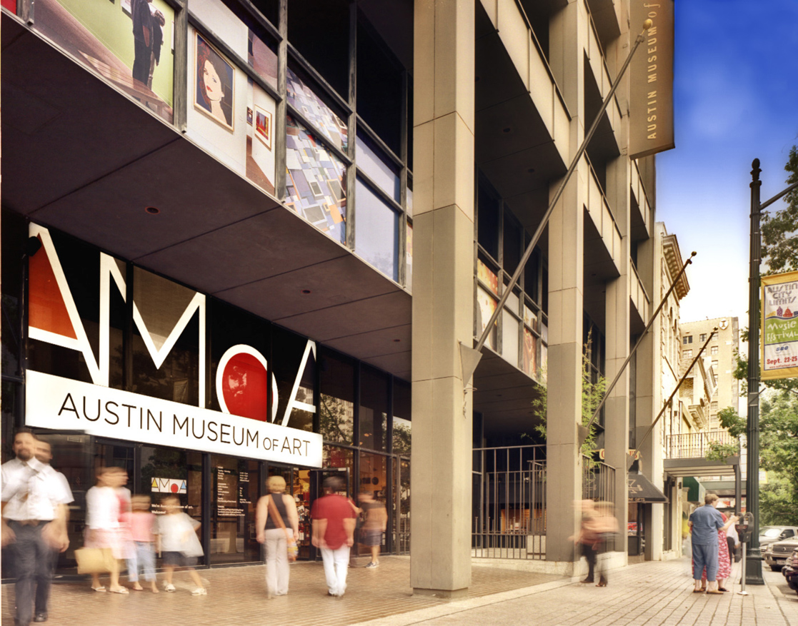 AMOA-Downtown Facade